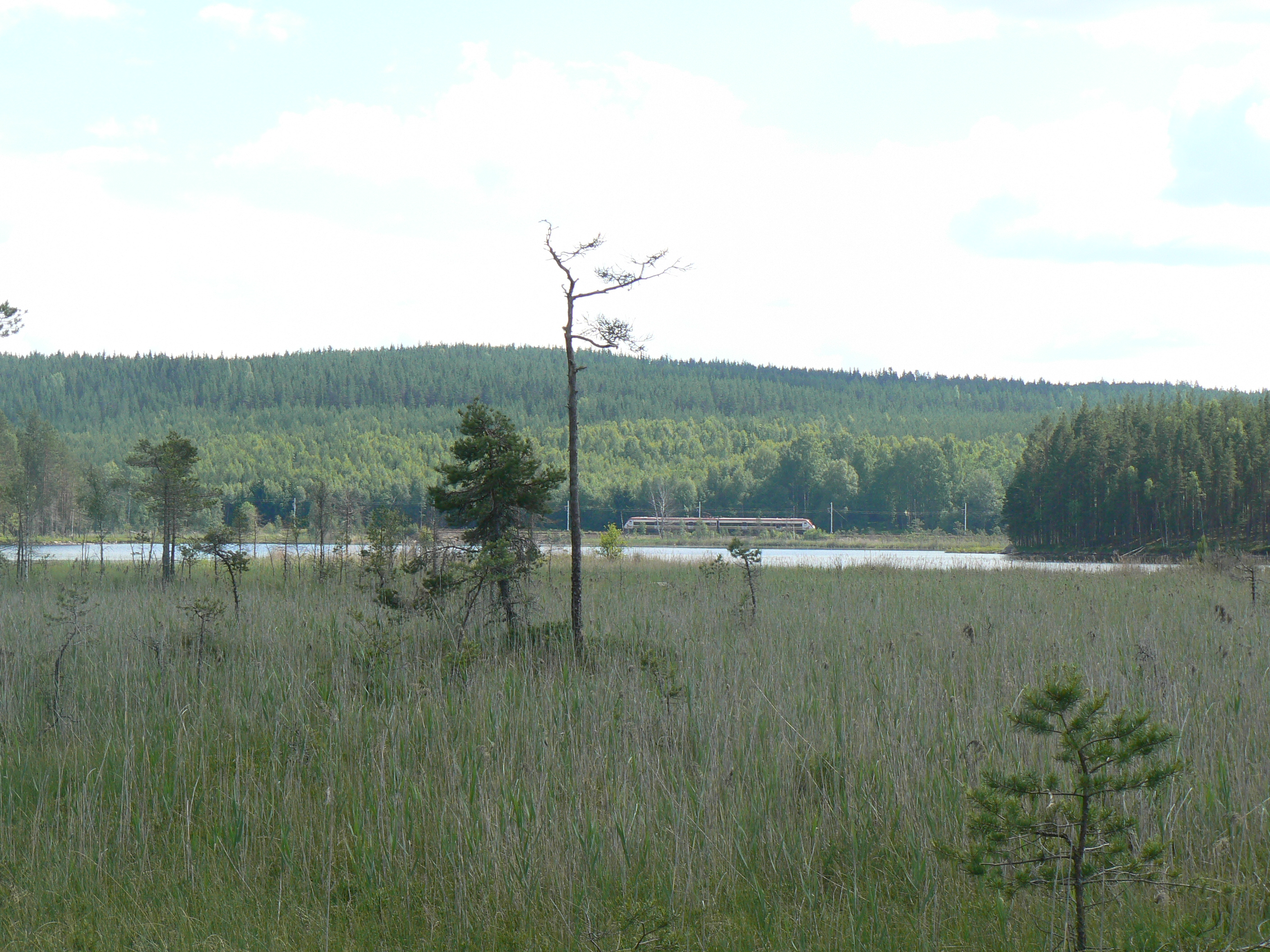 Lake Fisklösen in Falun Municipality, Dalarna, Sweden. (In the background a train.)